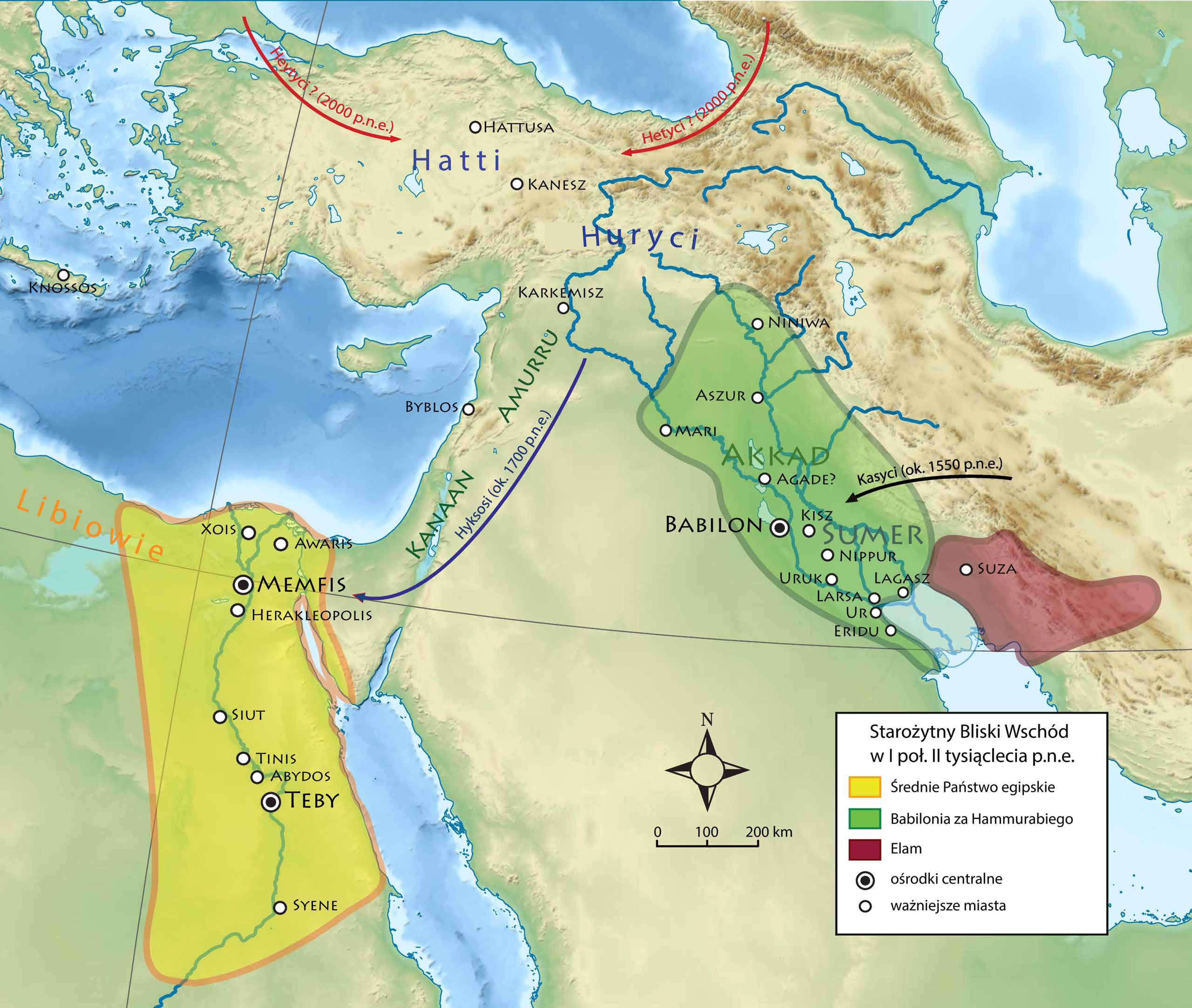 Ancient Near East (the 1st half of the 2nd millennium B.C.)